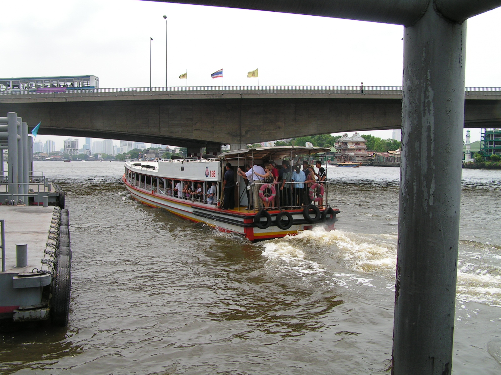 Water bus ("Express Boat") on Chao Phraya river, Bangkok. Source: Taken by myself, 21 March, 2006.